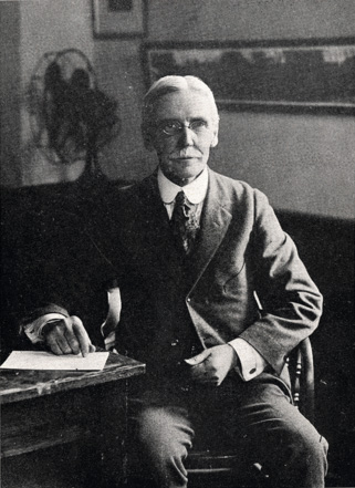 Charles C. Thatch